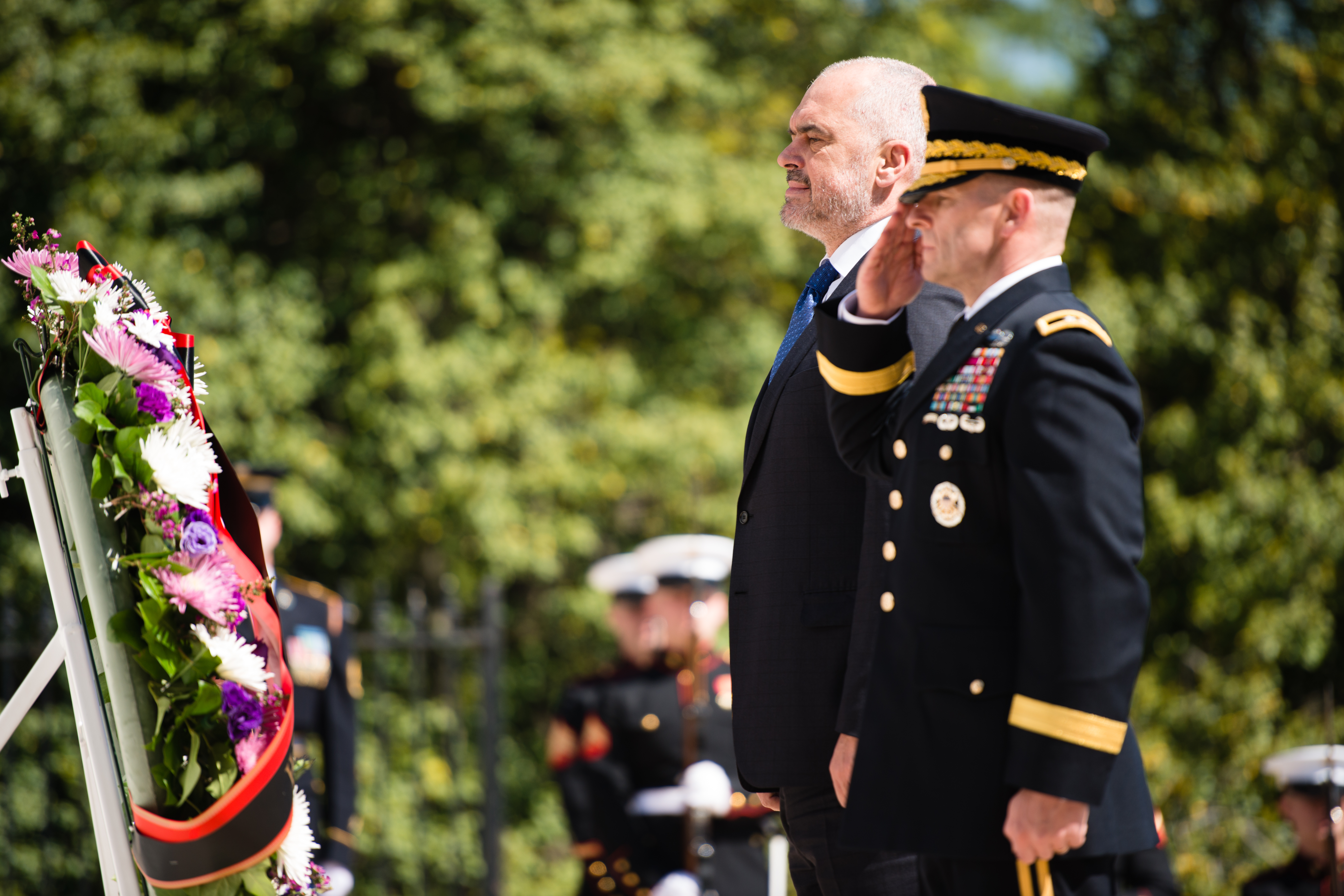 Prime Minister of the Republic of Albania Edi Rama, left, is escorted by Maj. Gen. Bradley A. Becker, second left, commanding general of U.S. Army Military District of Washington and Joint Force Headquarters-National Capital Region, during a full honors wreath laying ceremony at the Tomb of the Unknown Soldier in Arlington National Cemetery, April 13, 2016, in Arlington, Va. Rama also toured the Memorial Amphitheater Display Room following the ceremony. (U.S. Army photo by Rachel Larue/Arlington National Cemetery/released)